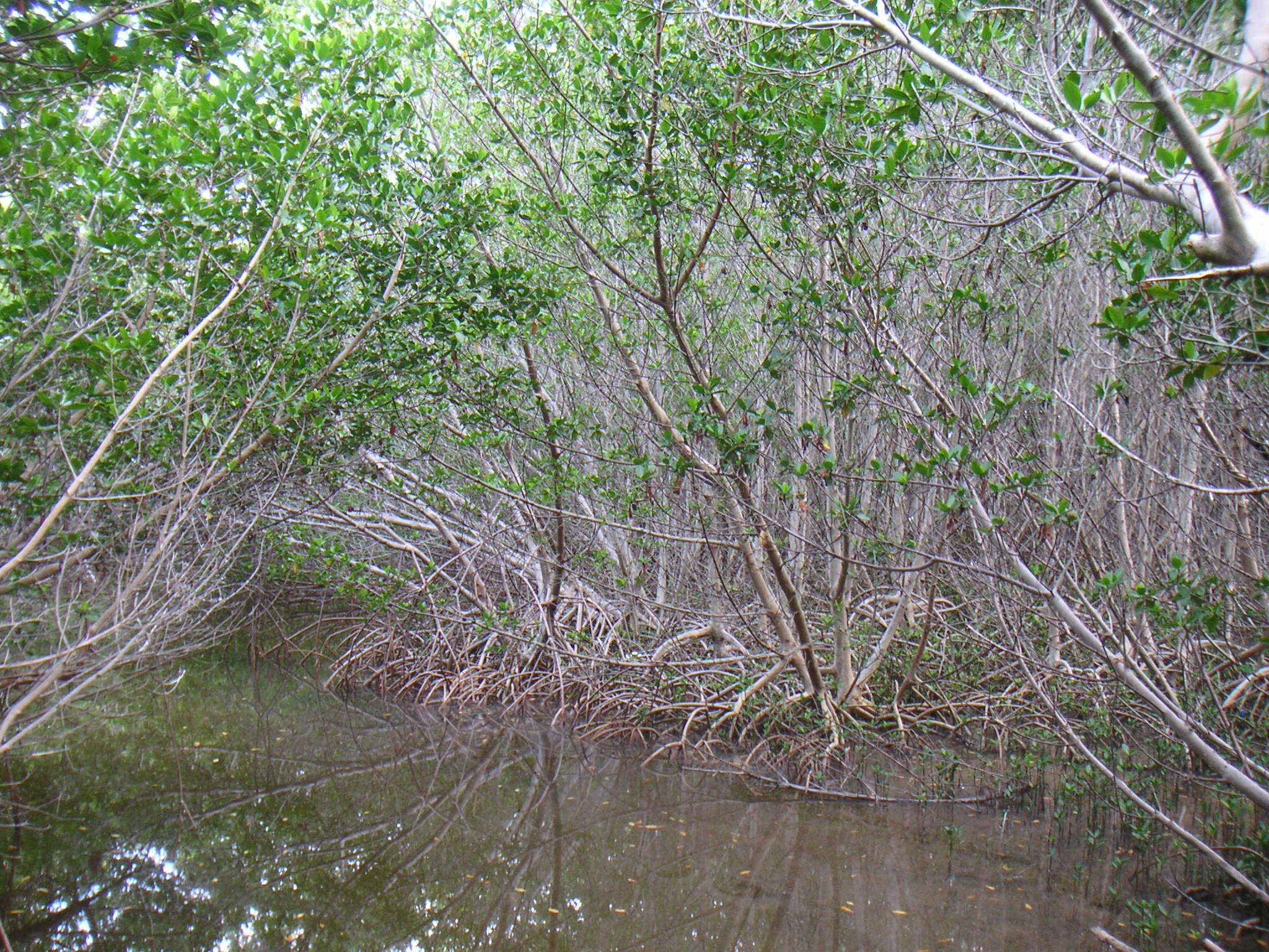 Rhizophora mangle (Rhizophoraceae)